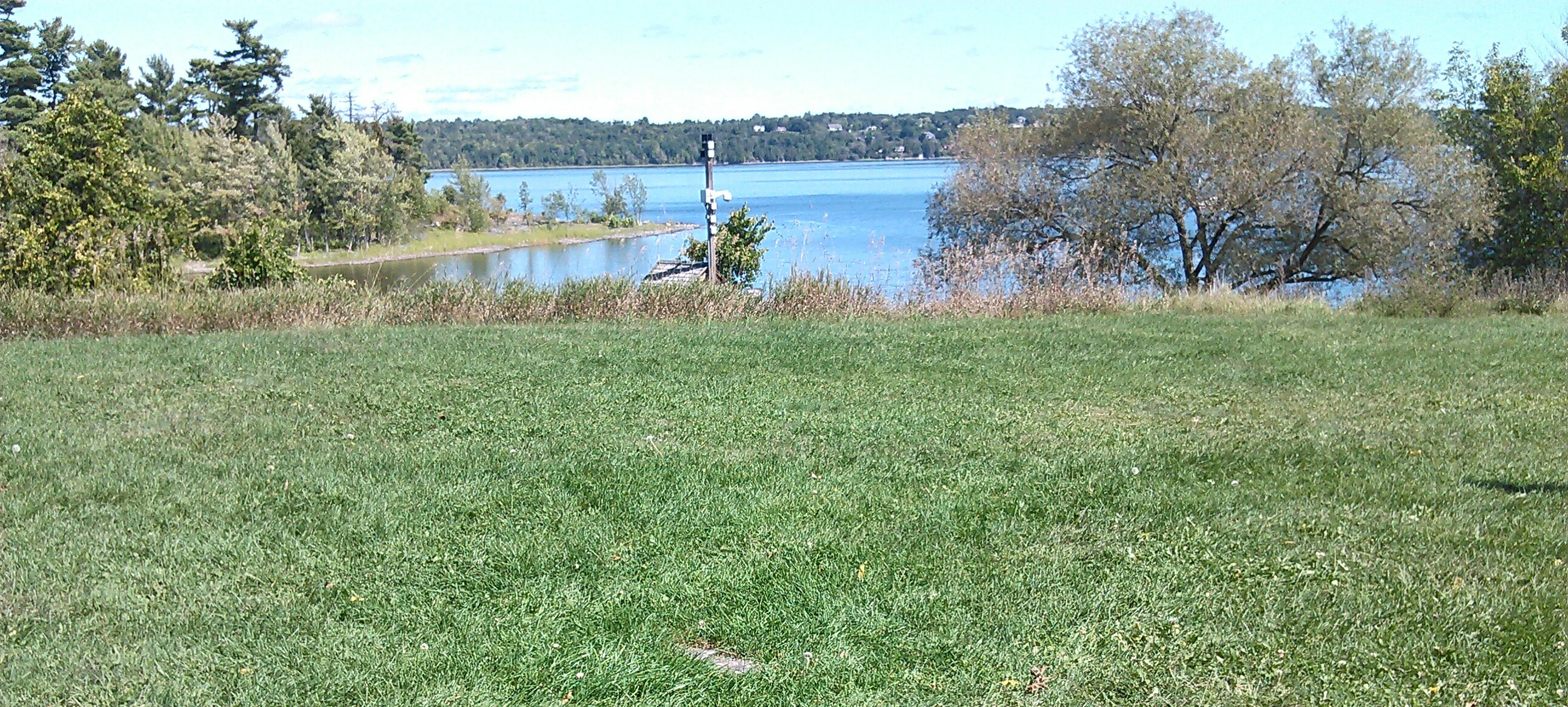 Outbuilding, Pinhey Homestead, erected c. 1825, March Township, Carleton County, Ontario. June 8, 1925. Now in the Kanata community of Ottawa, Ontario, Canada